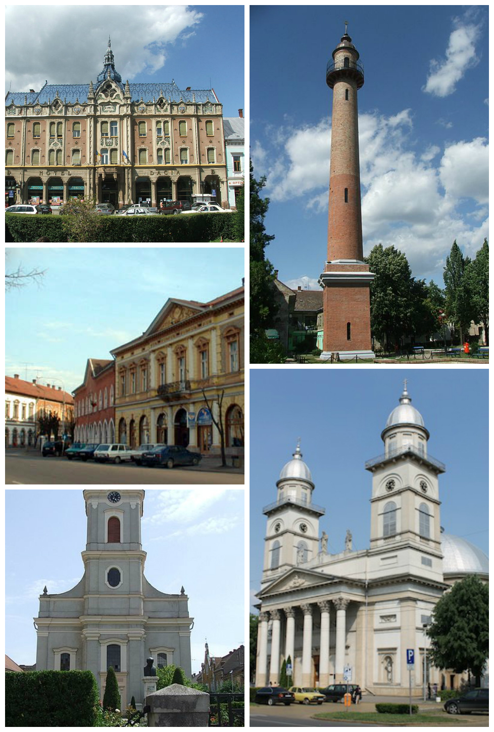 City of Satu Mare, Romania - photo montage.